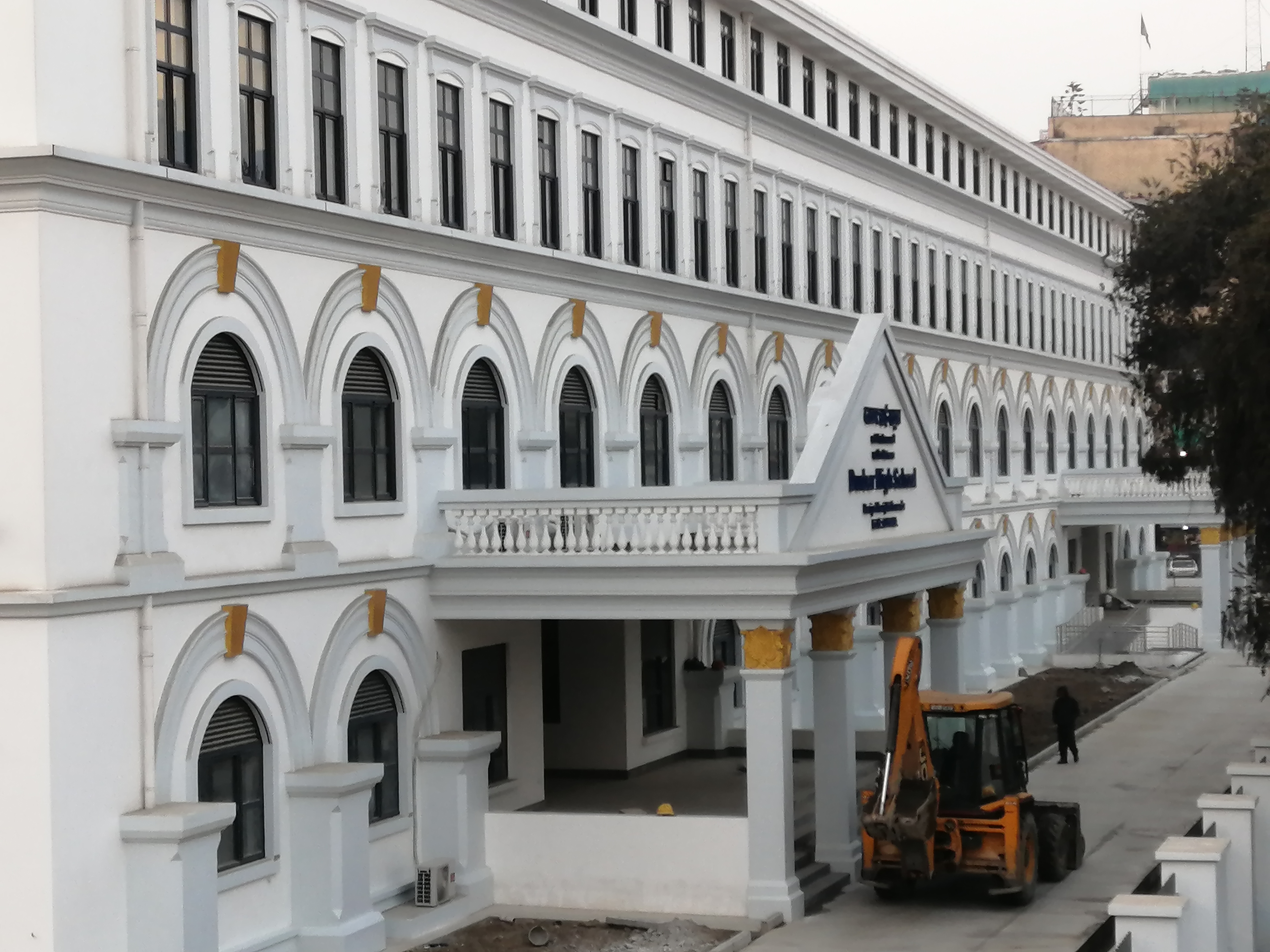 Durbar High School is the first school of Nepal established during Rana Regime.